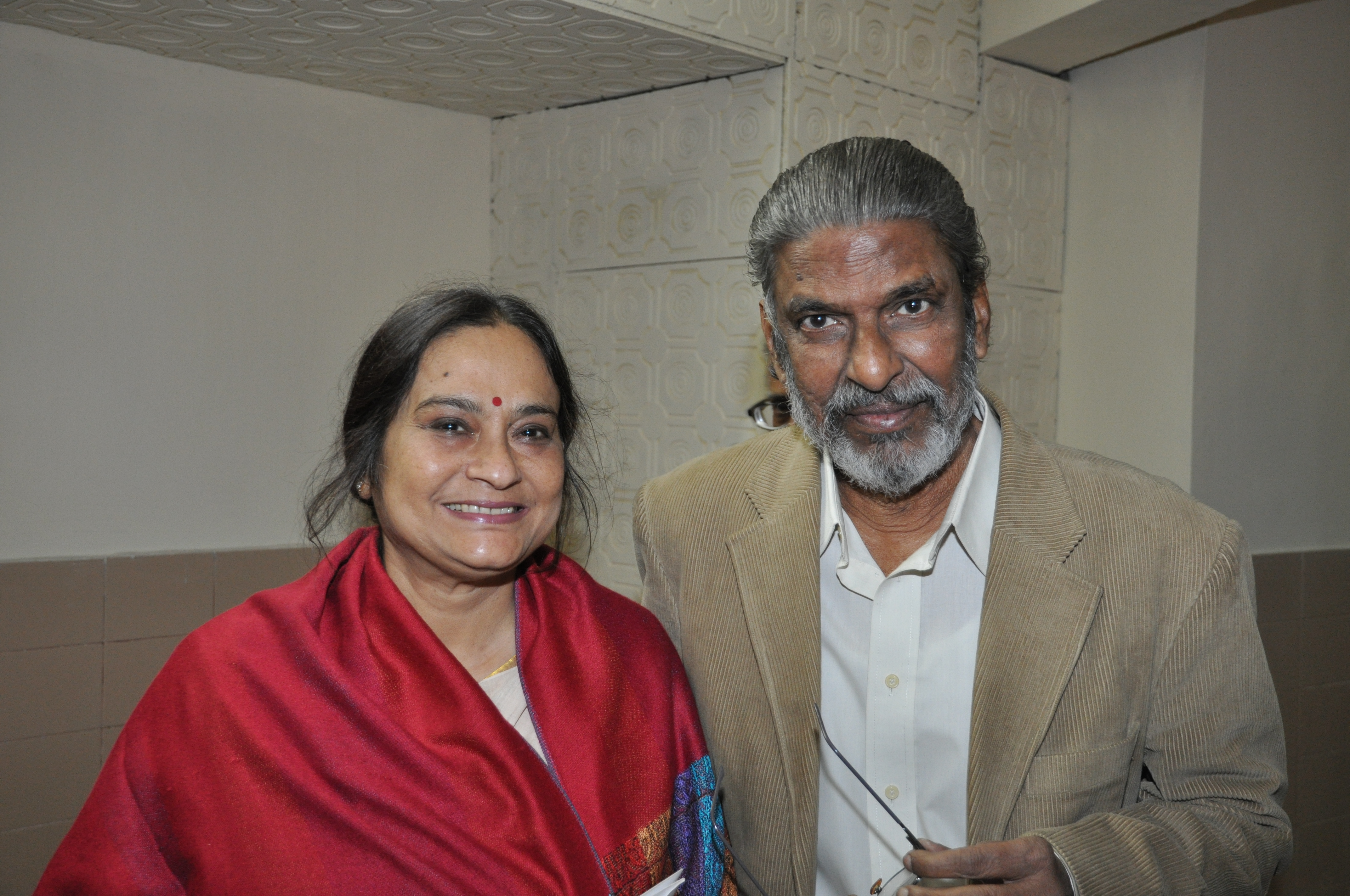 Noted theater personalities in India